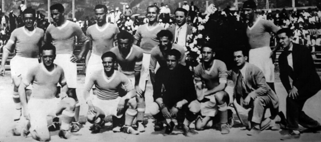 Naples (Italy), Arenaccia's Military Stadium, June 9, 1929. A line-up of A.C. Napoli took to the field in the home victory versus S.S. Ambrosiana (4-1), Matchday 29 of the Italian Championship 1928–29 Divisione Nazionale, Group B.